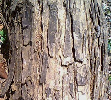 Bark of Acacia catechu tree occuring in Southern Trpical Dry Deciduous Forests of Maharashtra , India.